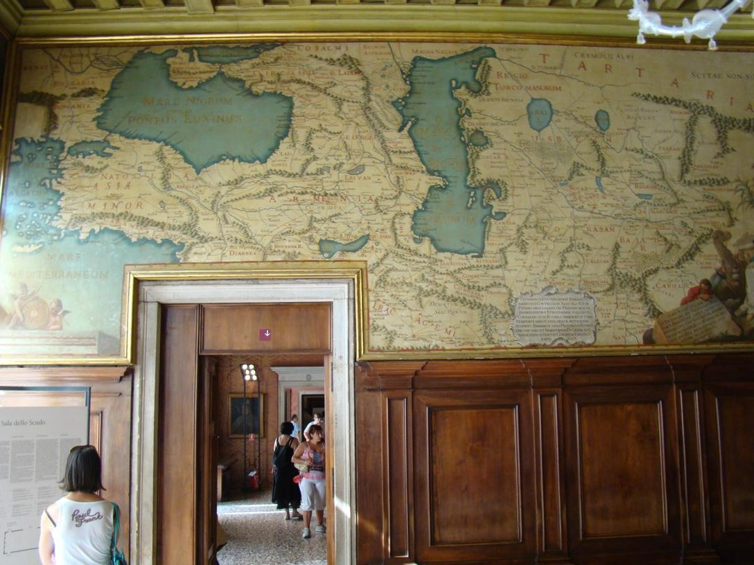 The historical map of Armenia in the palace